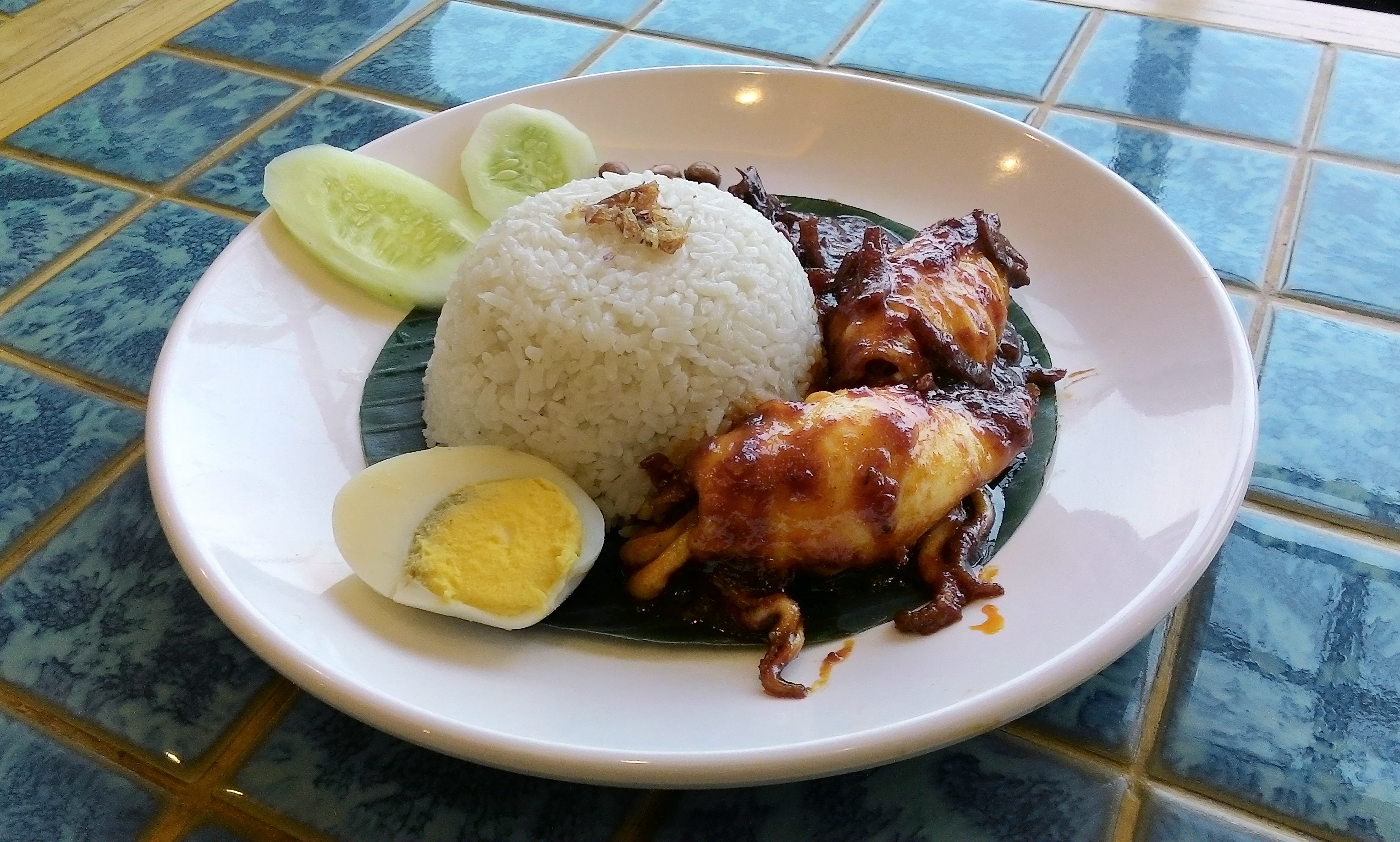 Nasi lemak (Malay fragrant coconut rice) served with sambal cumi (squid in chili sauce), sambal teri (sambal with anchovy), teri kacang (peanuts and salted ancovy), half boiled egg, and slices of cucumber. The rice is sprinkled with bawang goreng (fried shallot), served in a restaurant in Indonesia. Although this dish is popularly known as a national dish of Malaysia, it is also considered as a native dish in Riau Islands and Riau provinces in Indonesia, where it often served with spicy freshwater fish or seafoods (fish, shrimp or squid).